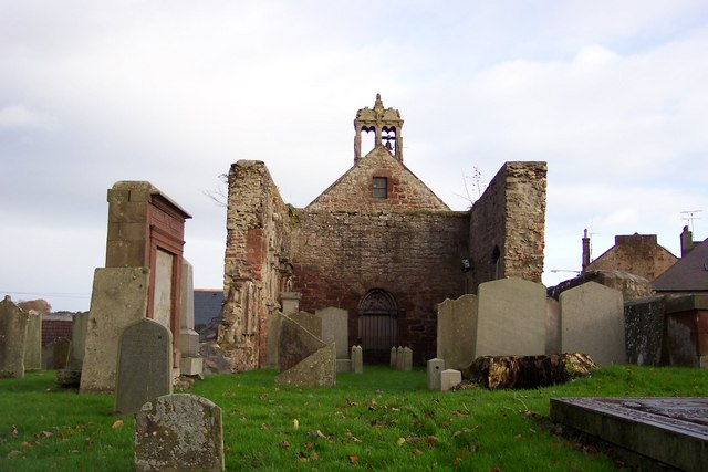 Church of Turriff Remains of the medieval church of Turriff. In December 1861 portions of the choir were taken away, and on removing the stones from a window in the south wall, there appeared on the splay of one of the sides a human figure painted on the plaster in bright colours. Another painting was found on the other splay but was unfortunately never recorded and it was broken up and destroyed!